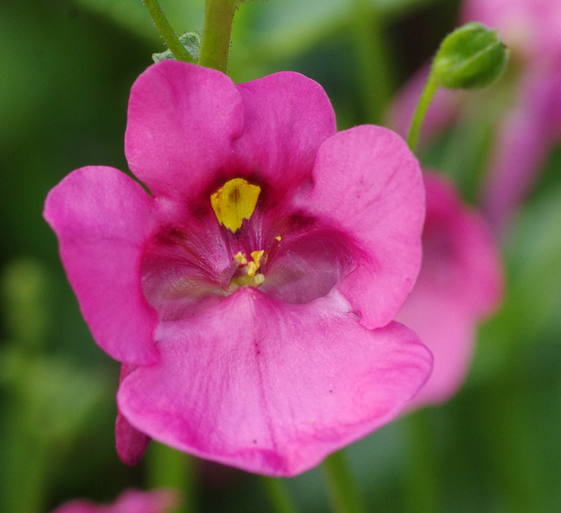 Diascia barberae at the ÖBG Bayreuth